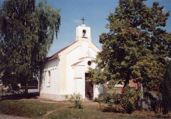 Village of Vojnice, District Louny